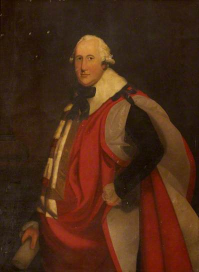 Portrait of Charles Dillon, 12th Viscount Dillon (1745–1813), British politician.